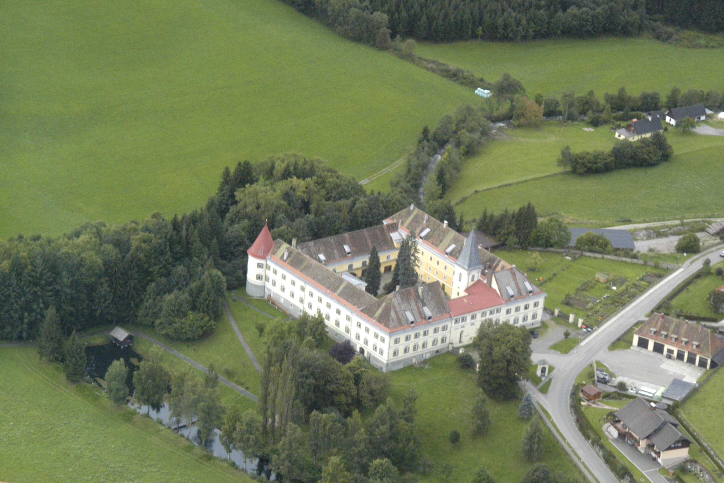 Aerial view of Castle Wasserberg, Gaal, Styria, Austria